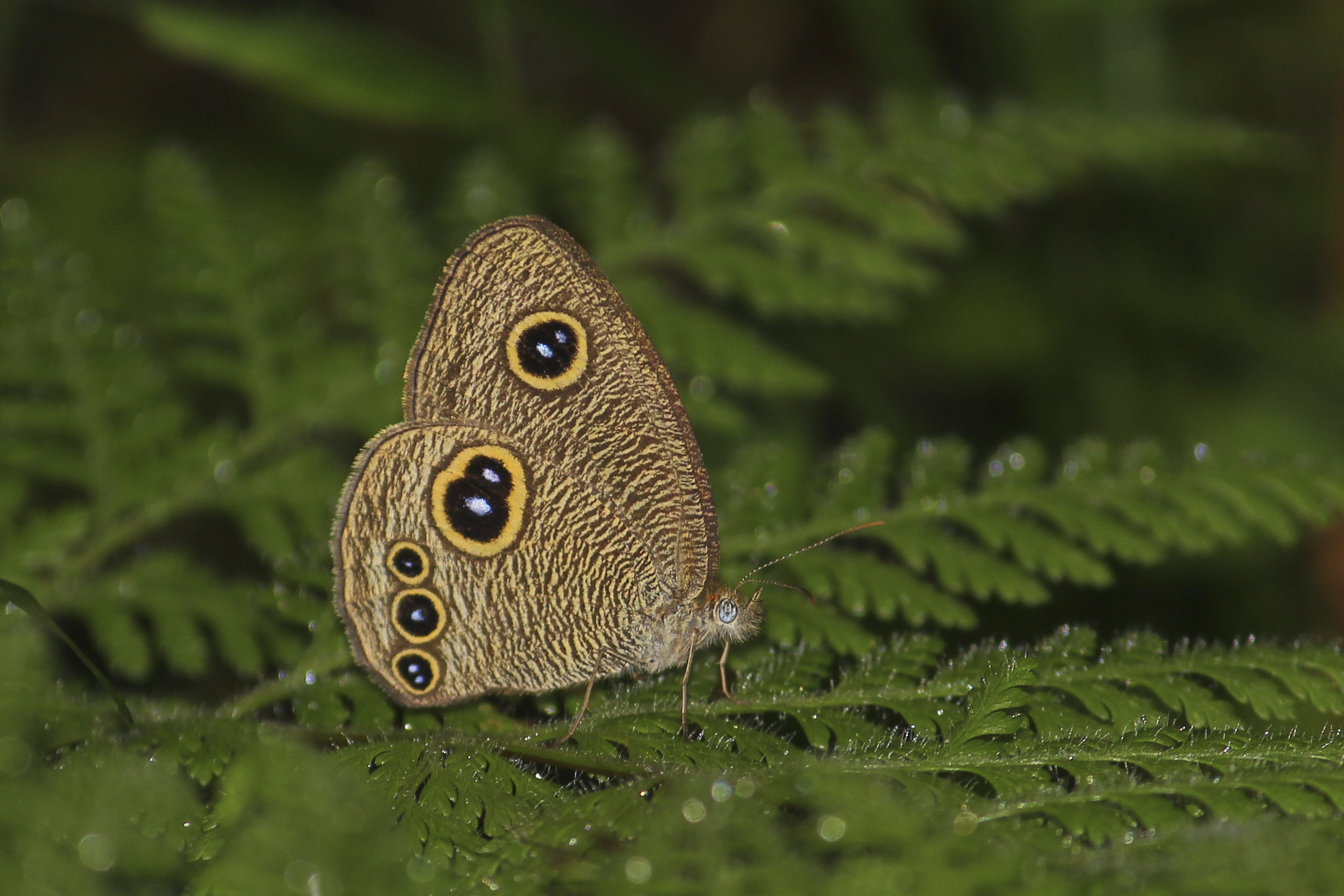 Close wing posture basking of Ypthima sakra Moore, 1857 – Himalayan Five-ring. This specimen belongs to sub-species Ypthima sakra sakra Moore, 1857 – East Himalayan Five-ring .